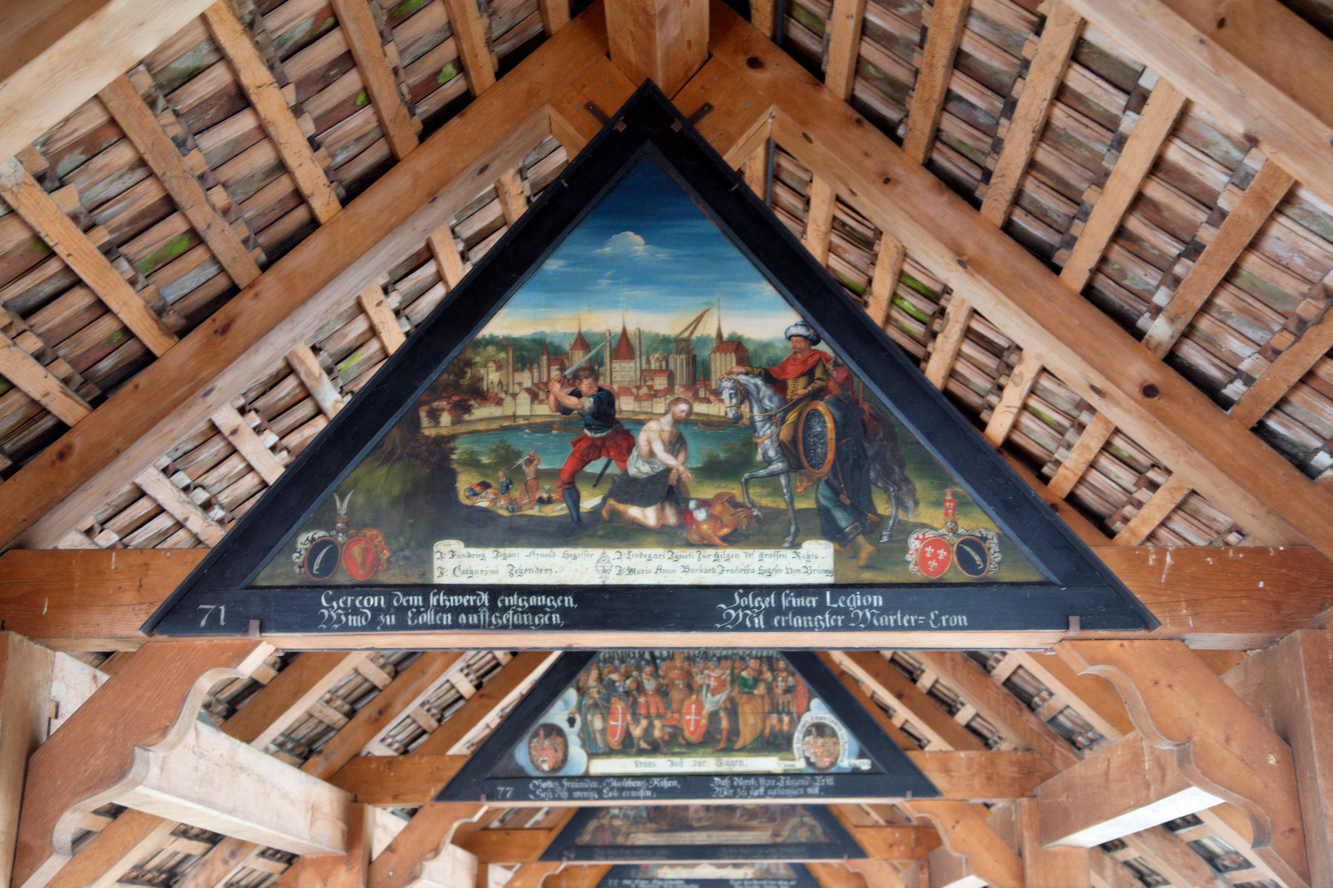 Painting inside Kapellbrücke, Lucerne